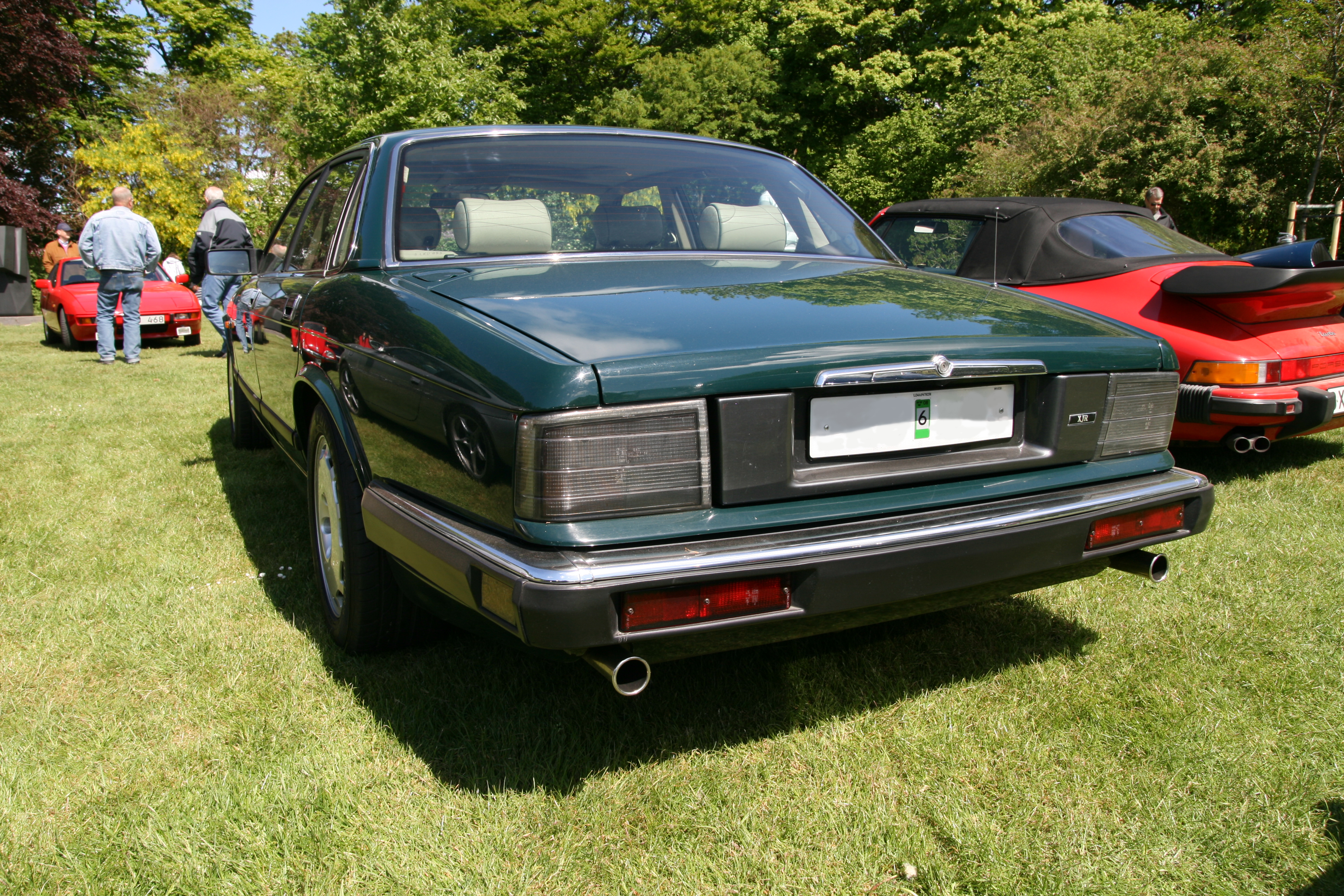 Read end of a 1993 Jaguar XJR parked at the Sofiero Classic car show at Sofiero castle in Helsingborg, Sweden.